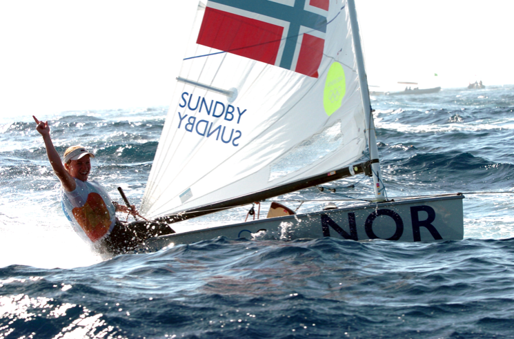 Siren Sundby, Olympic Champion 2004